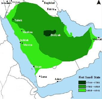 Map of the First Saudi State, Emirate of Diriyah. 1744 – 1766 1786 – 1808 1808 – 1816